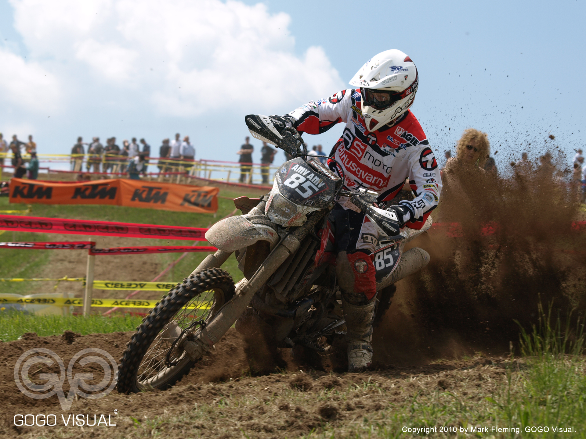 E2 - Stefano Passeri (ITA, Husqvarna) at the 2010 MAXXIS FIM Enduro World Championship GP of Italy, in Lovere (41st Valli Bergamasche)